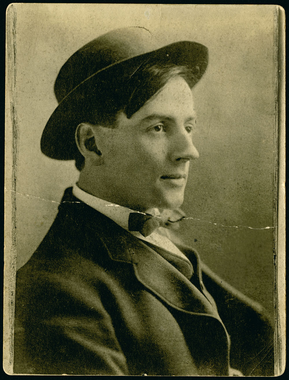 Profile of the painter Tom Thomson wearing a hat, c. 1910, The Morrison Family collection